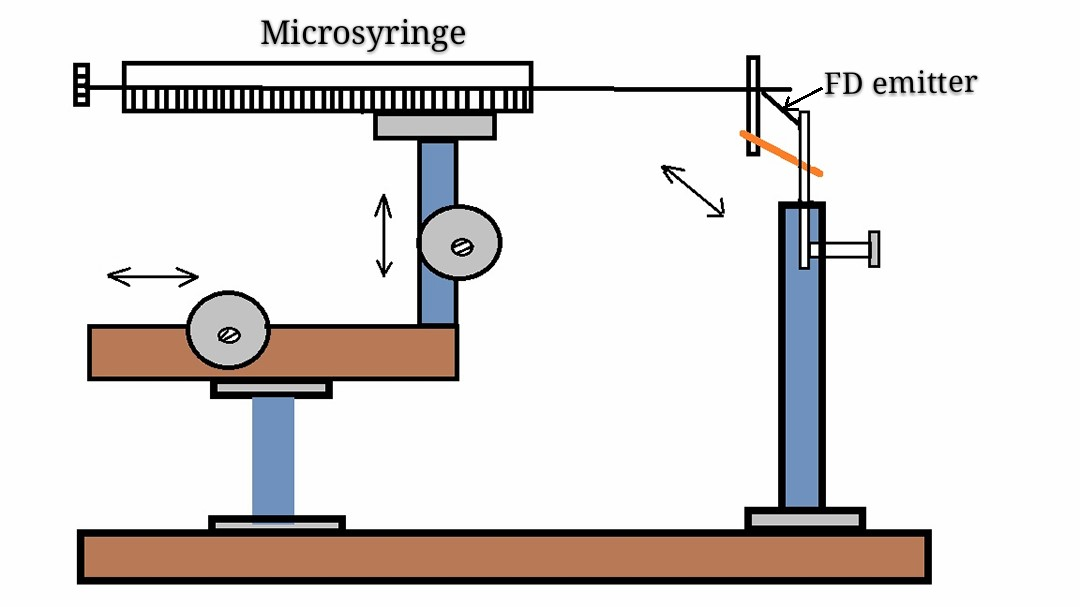 This is the configuration of the apparatus of the syringe technique in FD